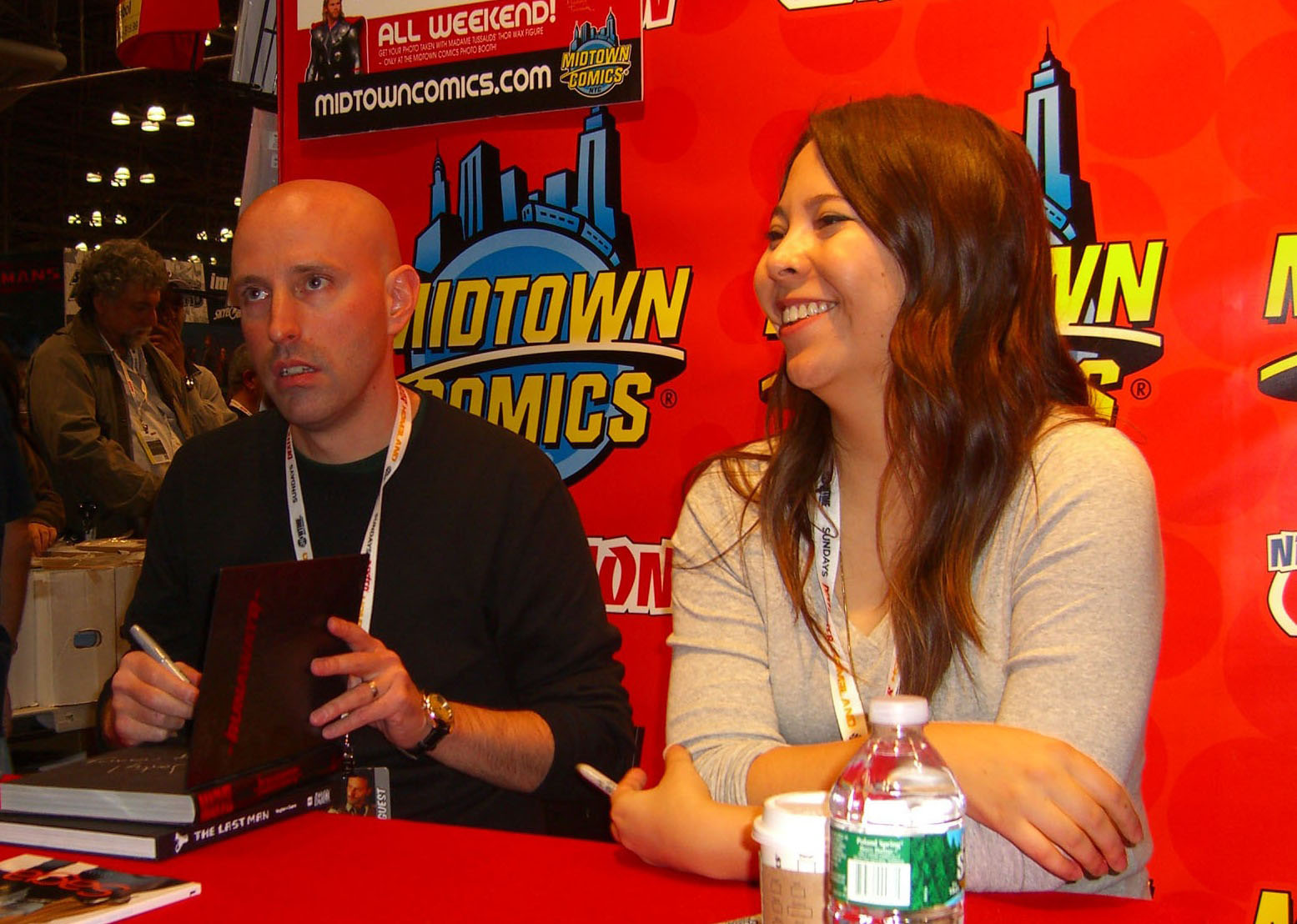 Writer Brian K. Vaughan and artist Fiona Staples, the co-creators of the comic book series Saga, at the Midtown Comics booth on Day 2 of the 2012 New York Comic Con, Friday October 12, 2012 at the Jacob K. Javits Convention Center in Manhattan. This photo was created by Luigi Novi. It is not in the public domain, and use of this file outside of the licensing terms is a copyright violation.